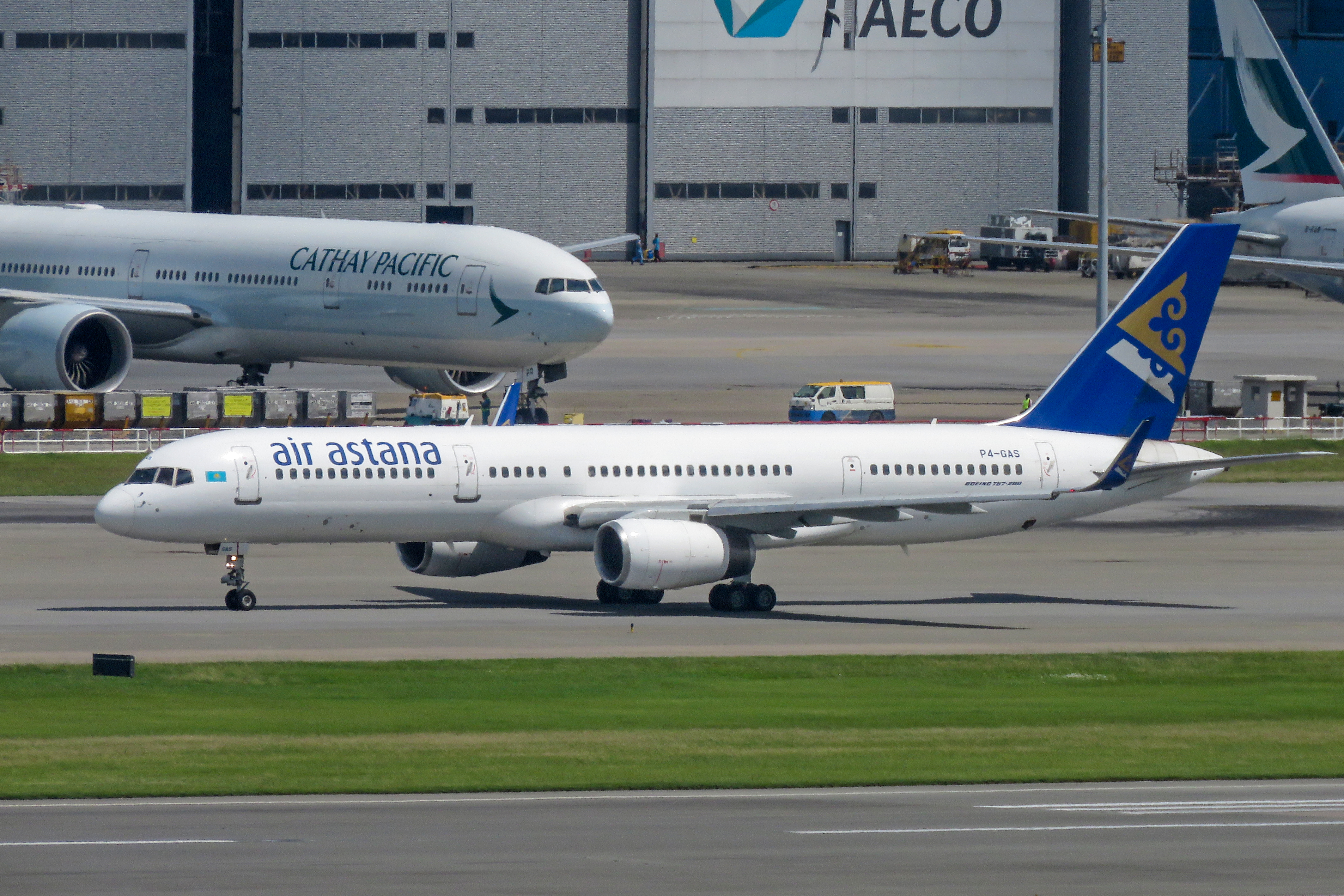 Astanaline 930 to Almaty. Not as early as KC888...